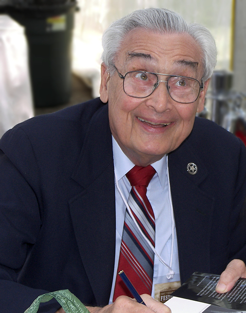 Robert M. Utley at the 2007 Texas Book Festival, Austin, Texas, United States.